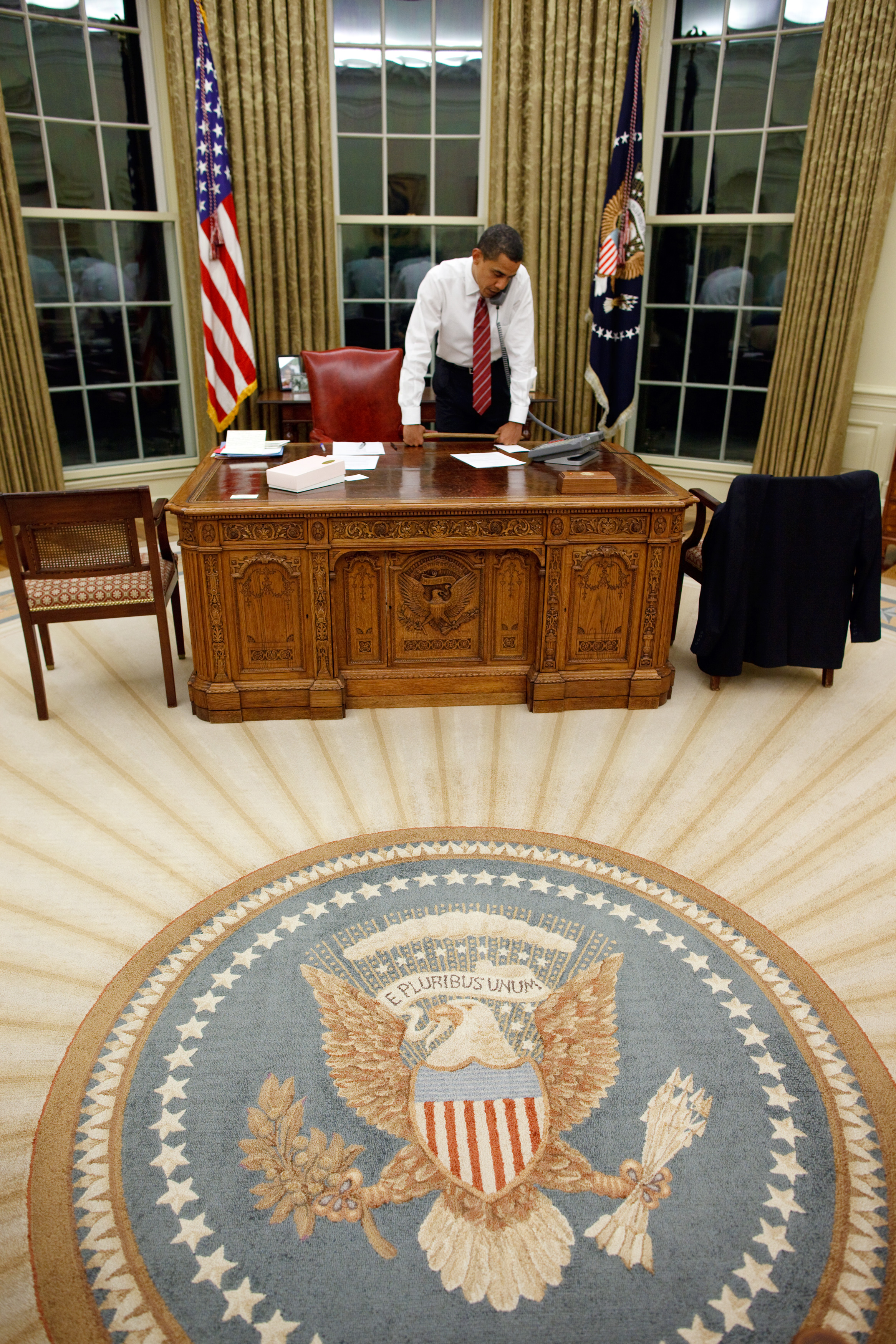 President Barack Obama in the Oval Office 1/30/09.